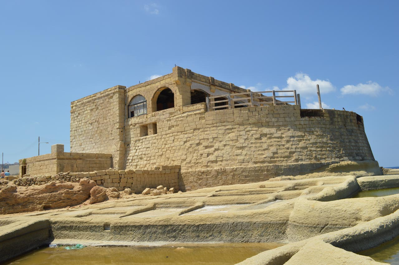 Qbajjar